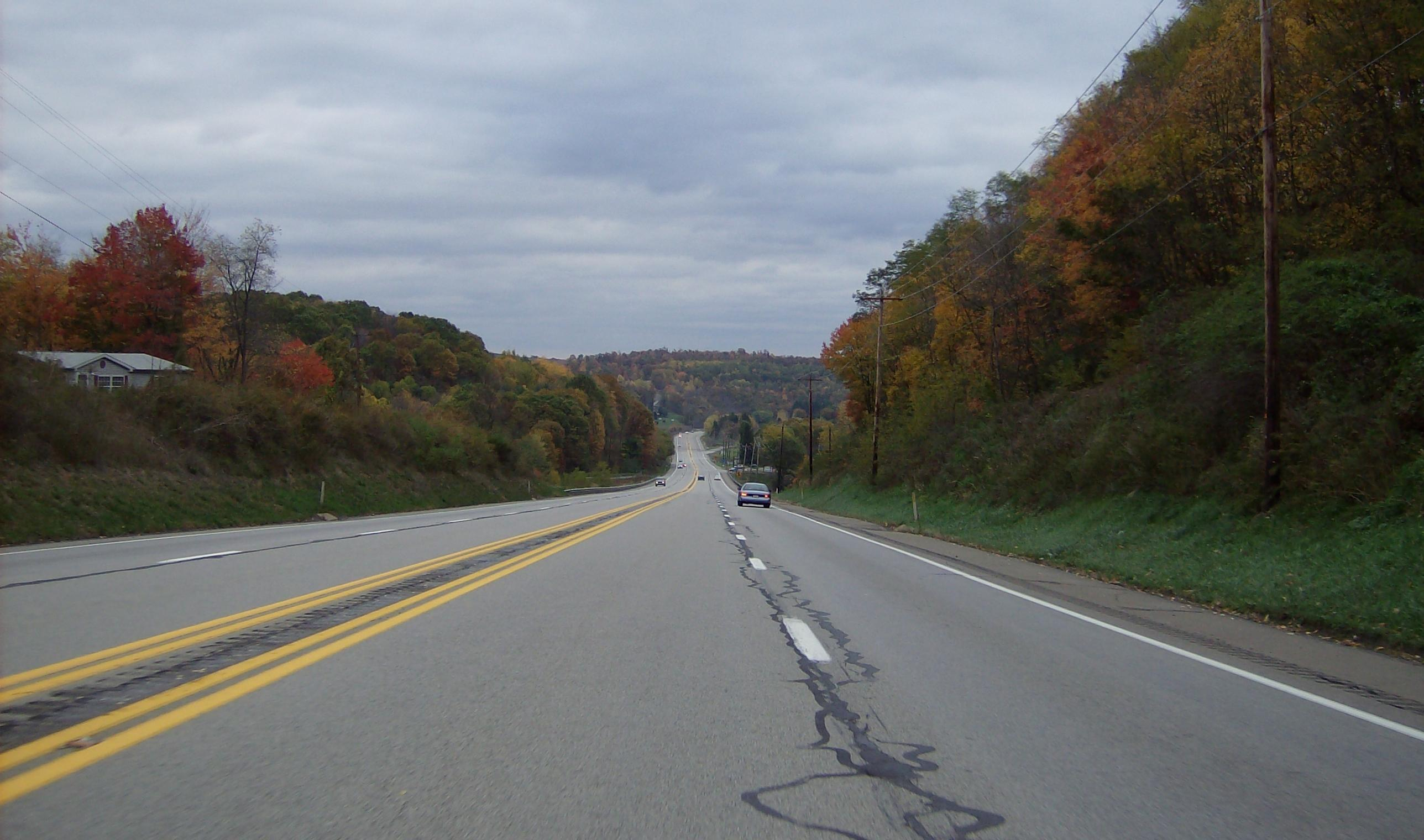 Along eastbound U.S. Route 422 in eastern West Franklin Township, Armstrong County, Pennsylvania, United States.